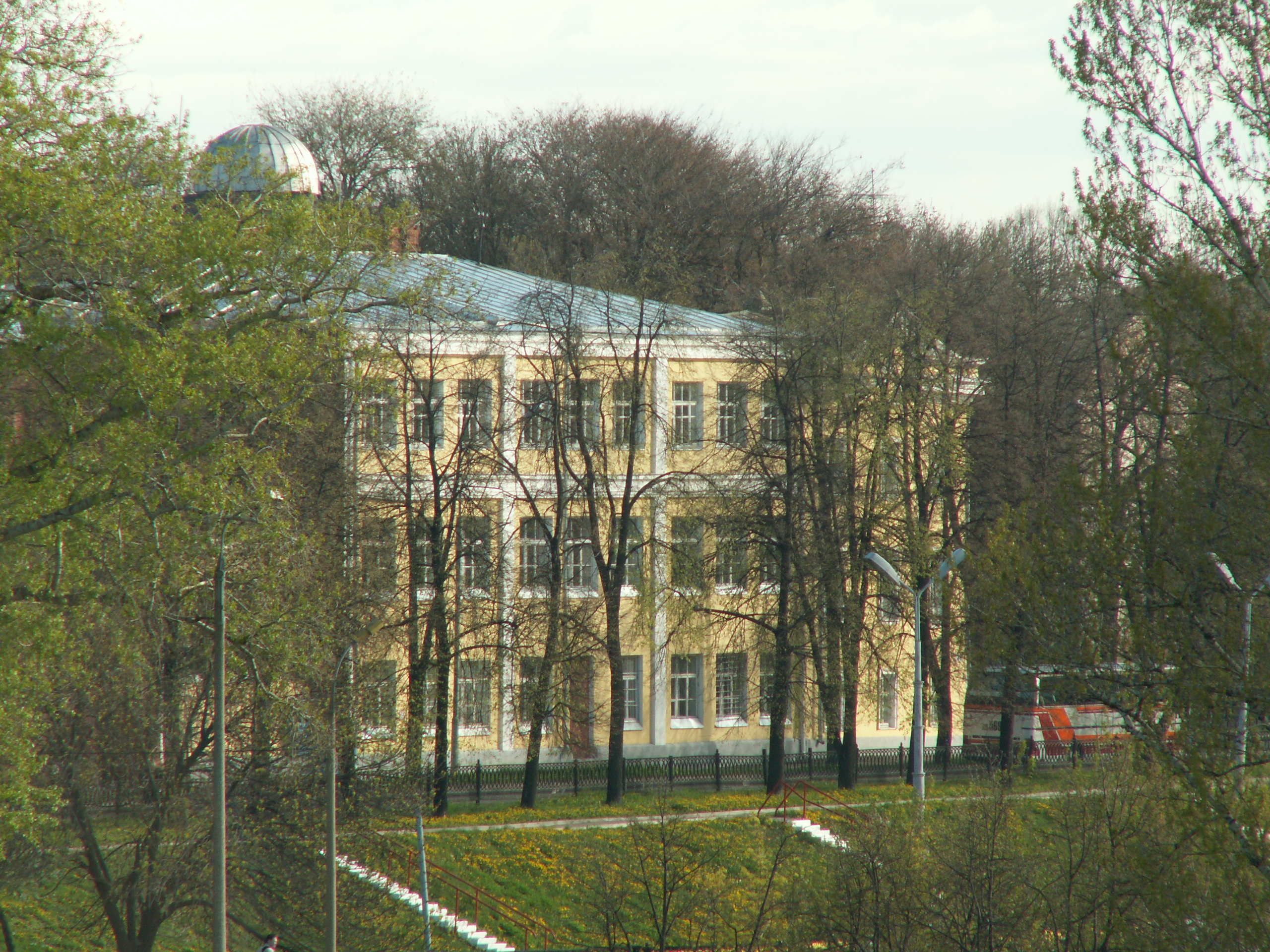 A building in Yaroslavl, at the Pochtovaya Street.